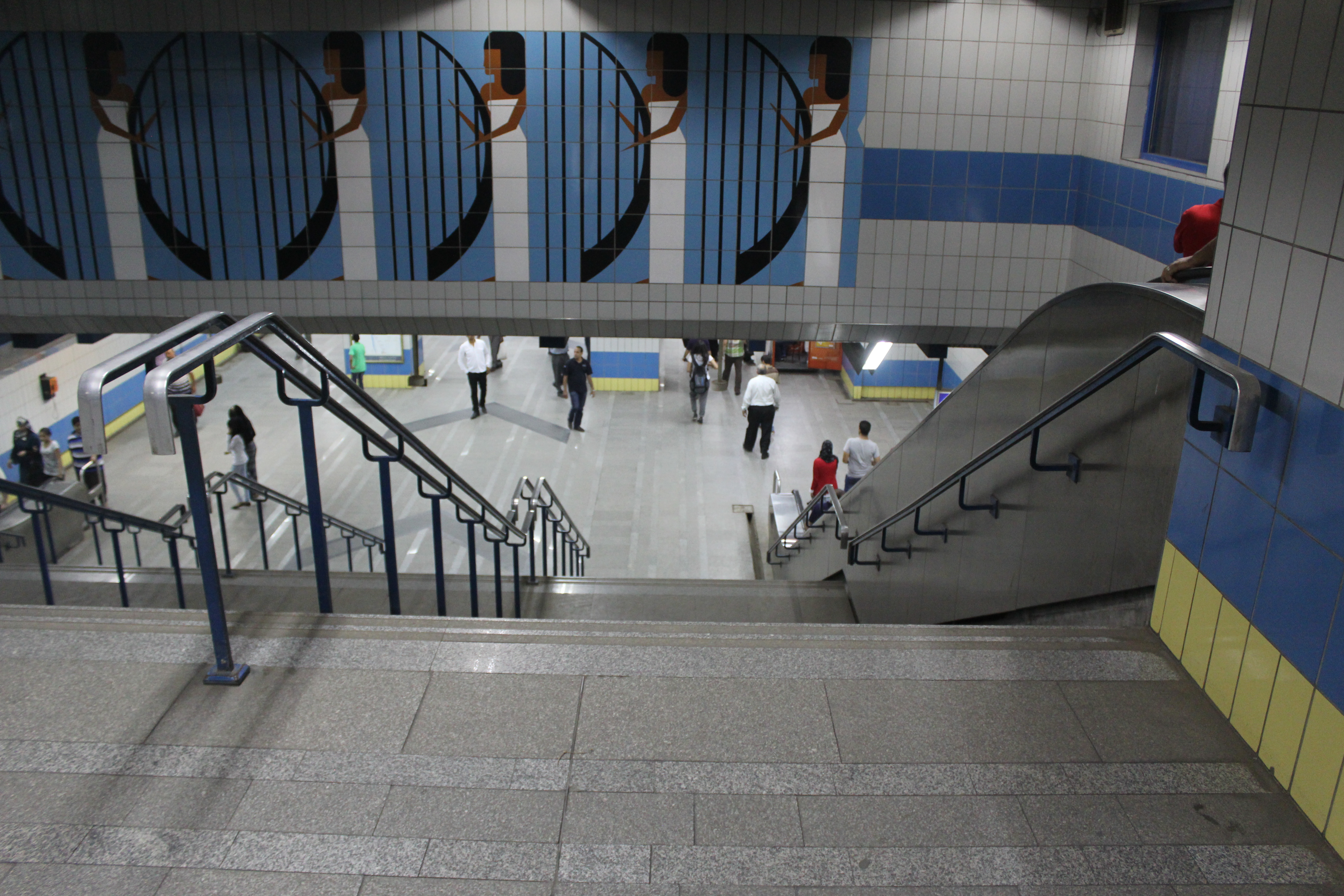 Entrance to Cairo Metro Station